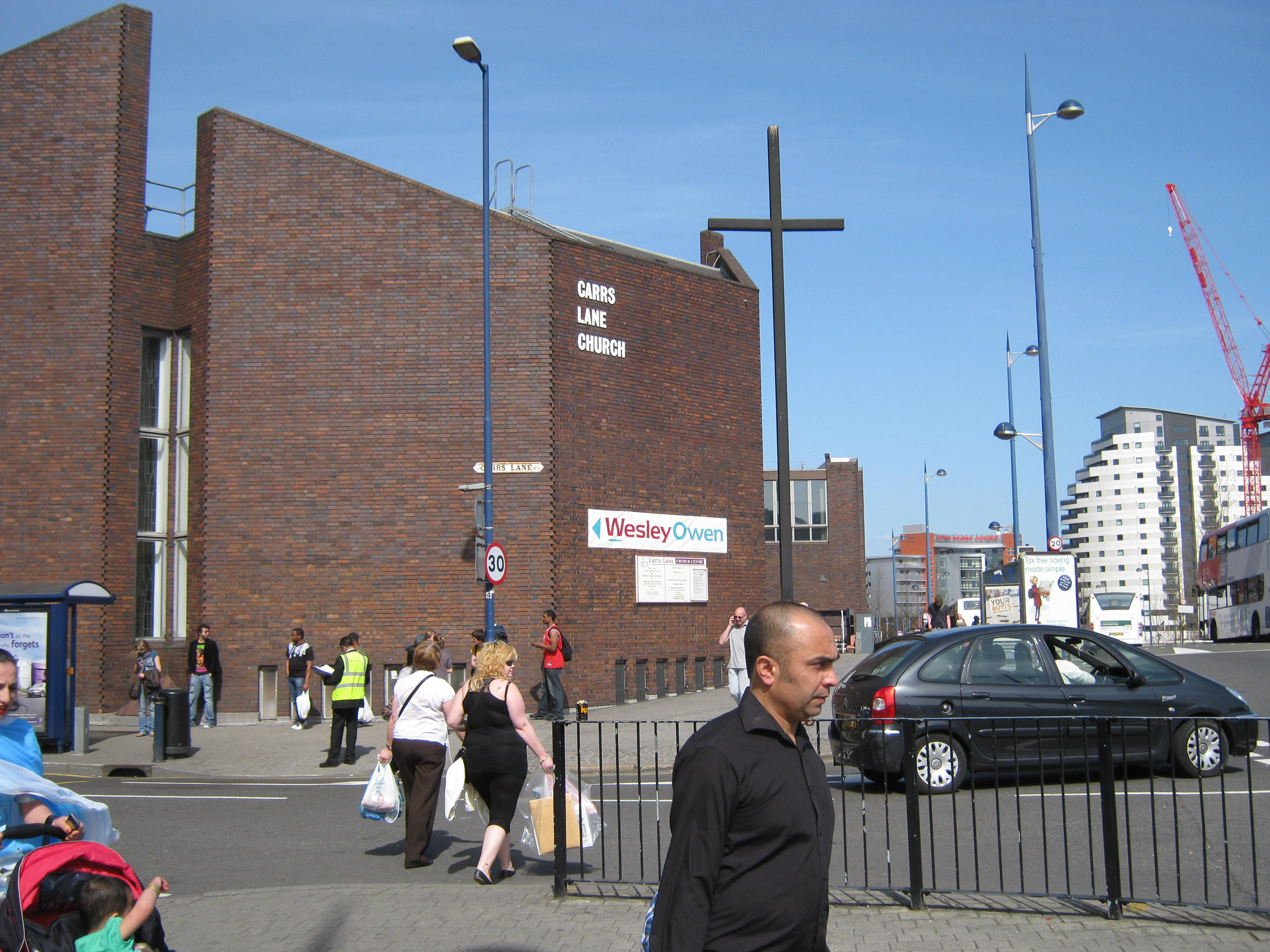 Carrs Lane Church